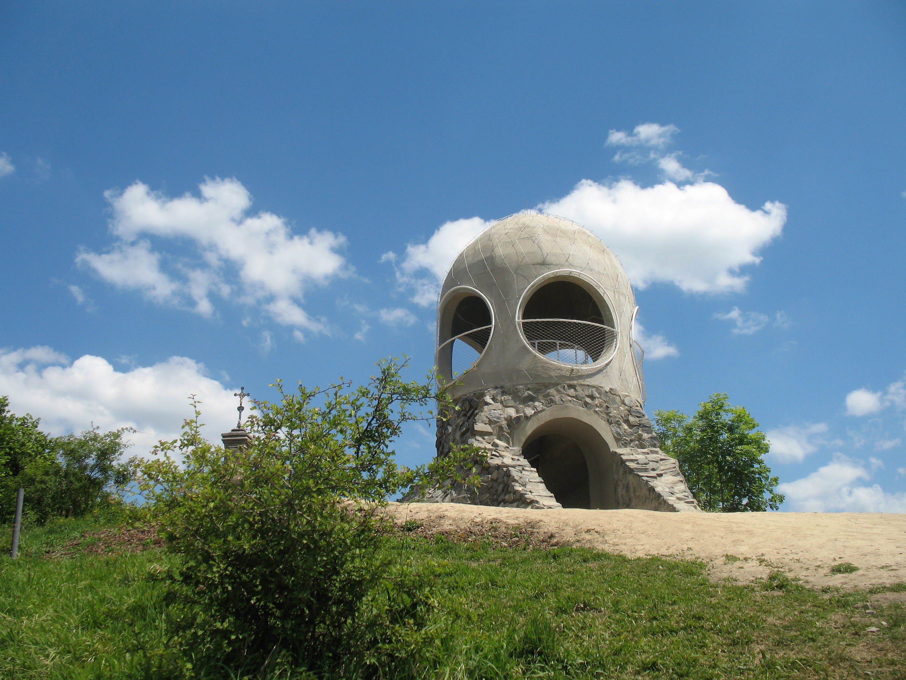 Observation tower Růženka in Růžová, Děčín District, Czech Republic